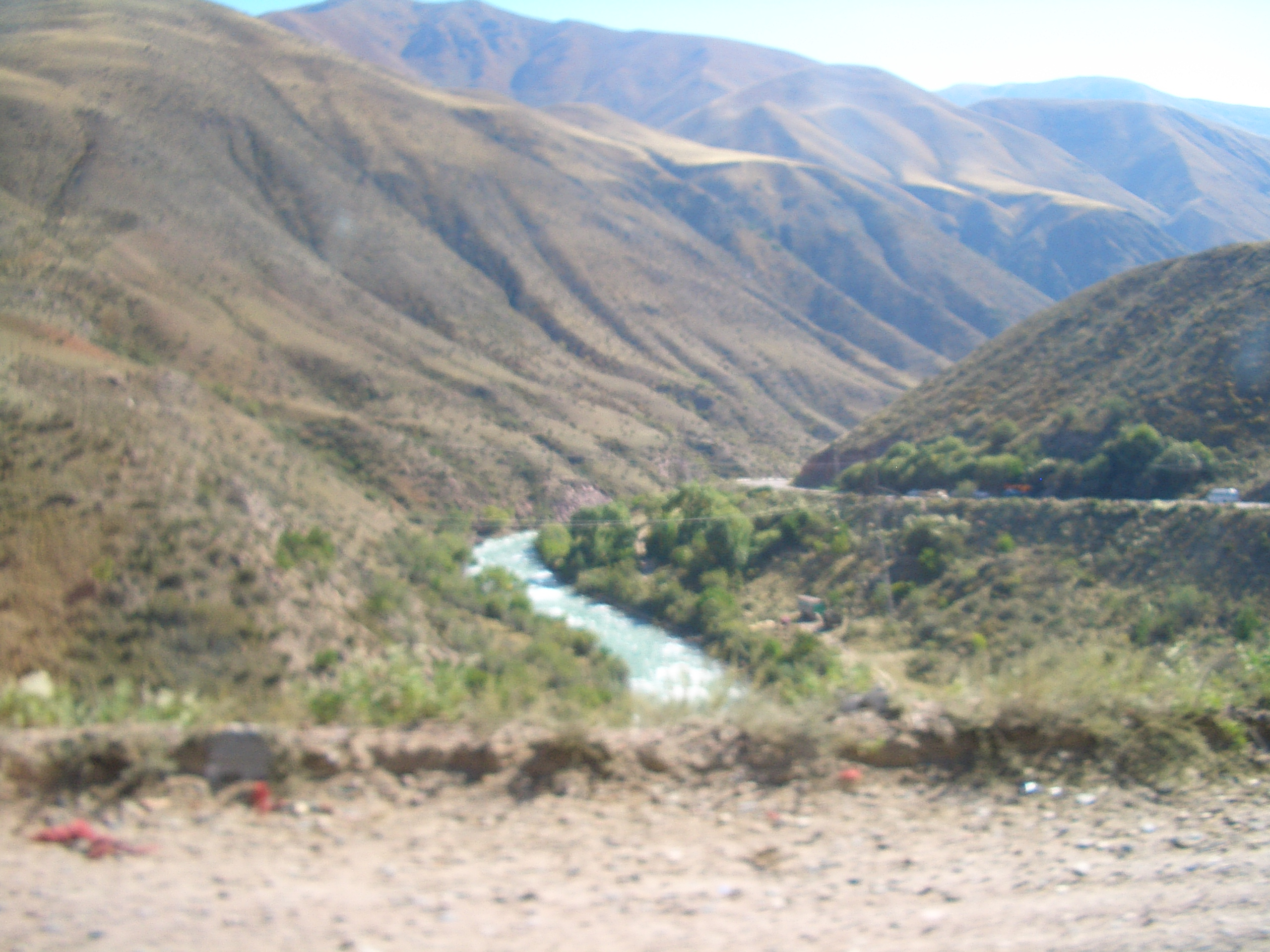 The Chu River, around the area where it leaves the Boom Gorge and enters the wider Chuy Valley. Seen from the Bishkek-Tokmak-Kemin-Balykchy highway.